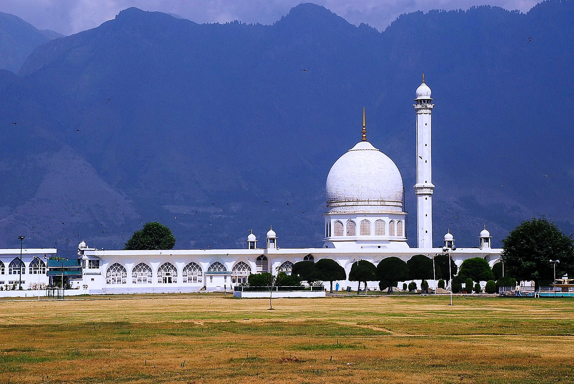 A historical monument and a mosque built all in marble stone in late 20th century by then chief minister of Kashmir Mr. Sheikh Abdullah.